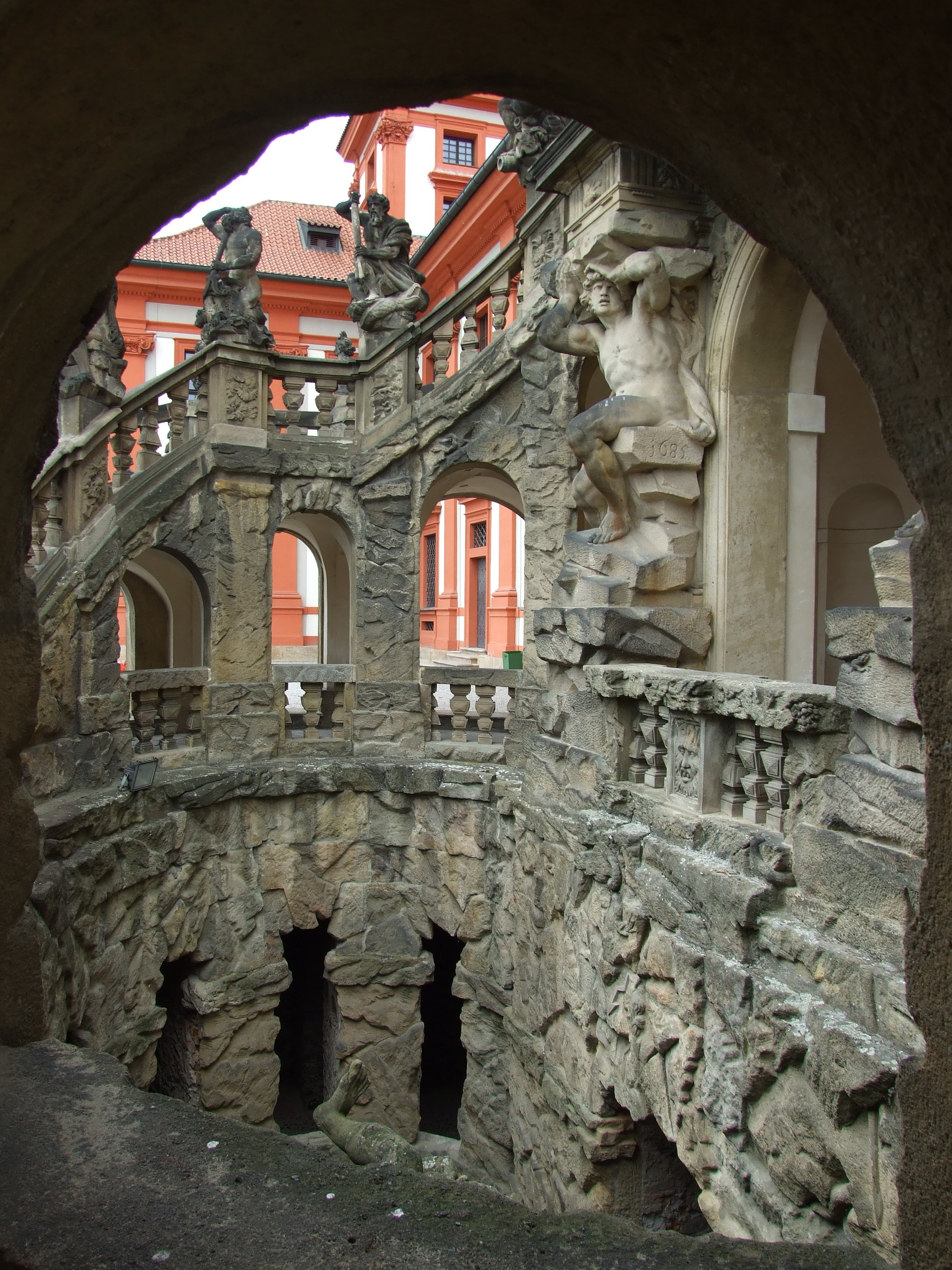 Castle Troja in Prague. The castle and gardenshelp